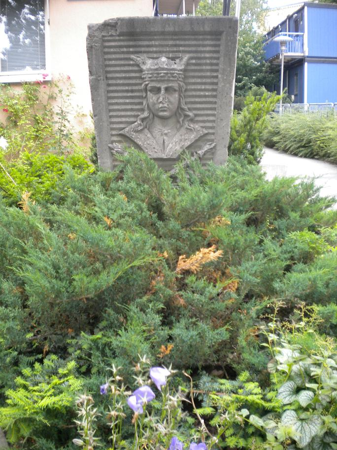 Monument to Saint EricPlace: Torsgatan, Stockholm, Sweden